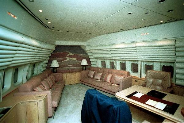 The President and First Lady's private cabin aboard Air Force One. The couches can fold out into beds.